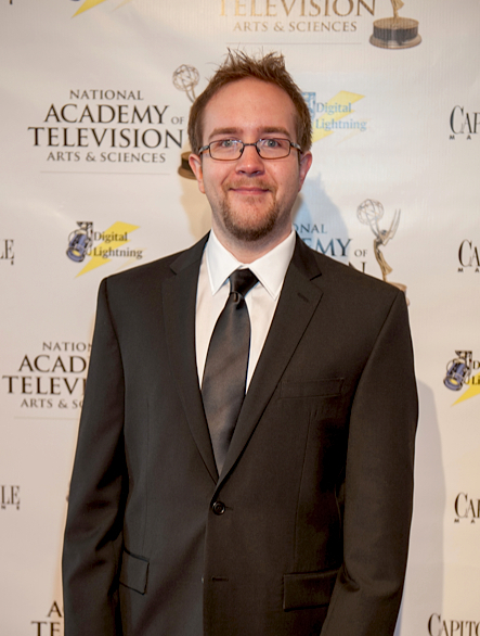 Filmmaker and television producer David Dillehunt on the red carpet at the 2013 NATAS-NCCB Regional Emmy Awards in Baltimore, Maryland. (June 2013)